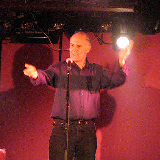 Marc Smith, guest of La Zone's monthly Slam open scene in Liege, Belgium.